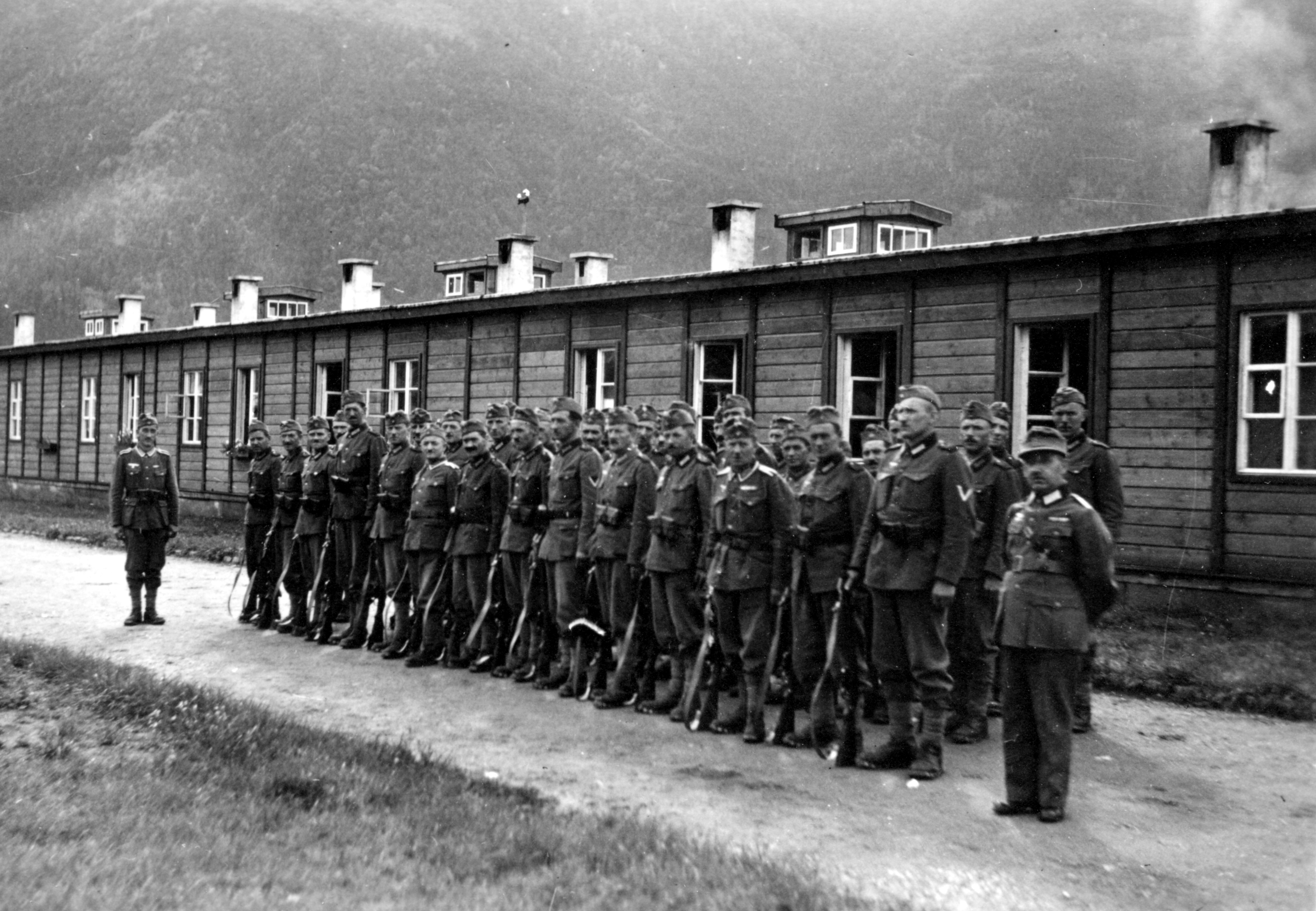 The German armed forces confiscated recruits, some as early as middle age in a barracks in Spittal an der Drau (district Spittal an der Drau in Carinthia / Austria / EU.